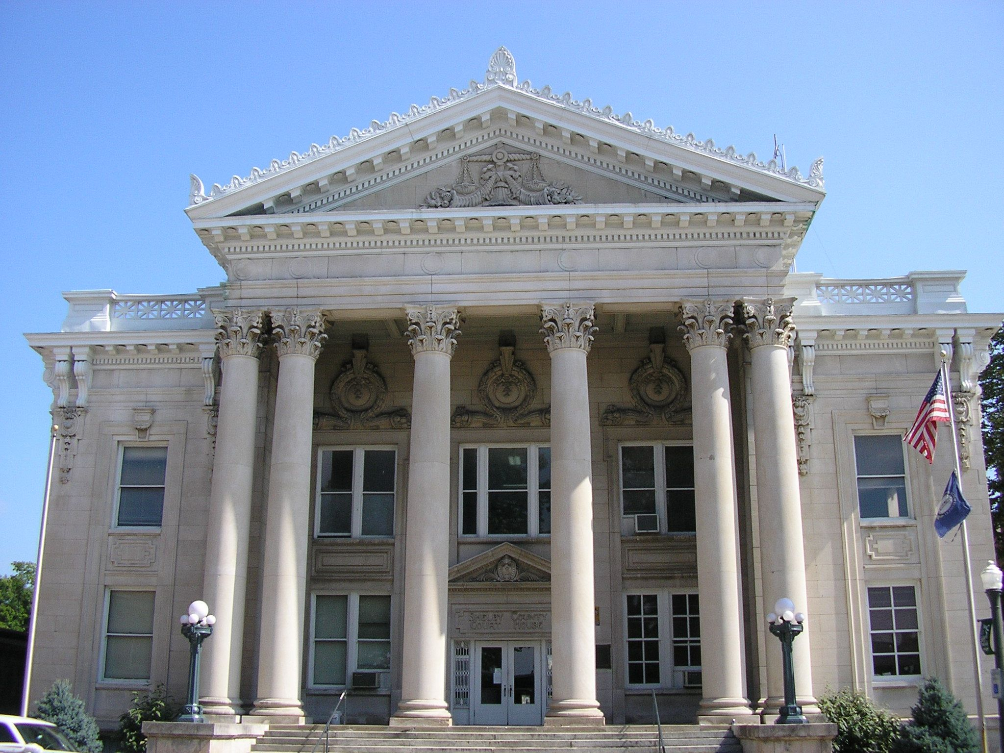 Historic Shelby County, Kentucky courthouse; the court has moved down the street to a new building, but the building is still in use as the county clerk's office and other government services